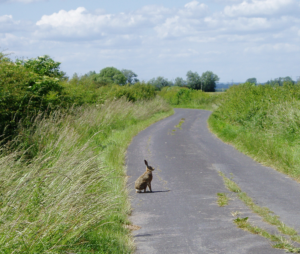 A wild Jackrabbit (Hare) on an English country lane.